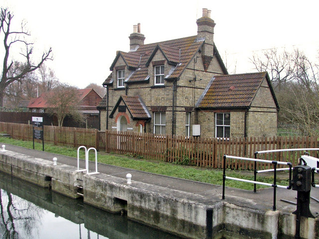 Lock Keeper's Cottage, Fielde's Weir Lock, looking north-east Looking north-east over the River Lea towards the Lock Keeper's Cottage, at Fielde's Weir Lock.